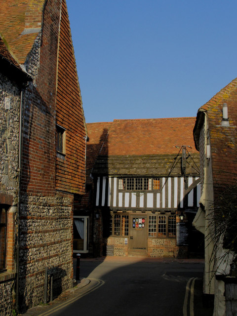 Star Lane, Alfriston Looking towards the George Public House in the High Street.